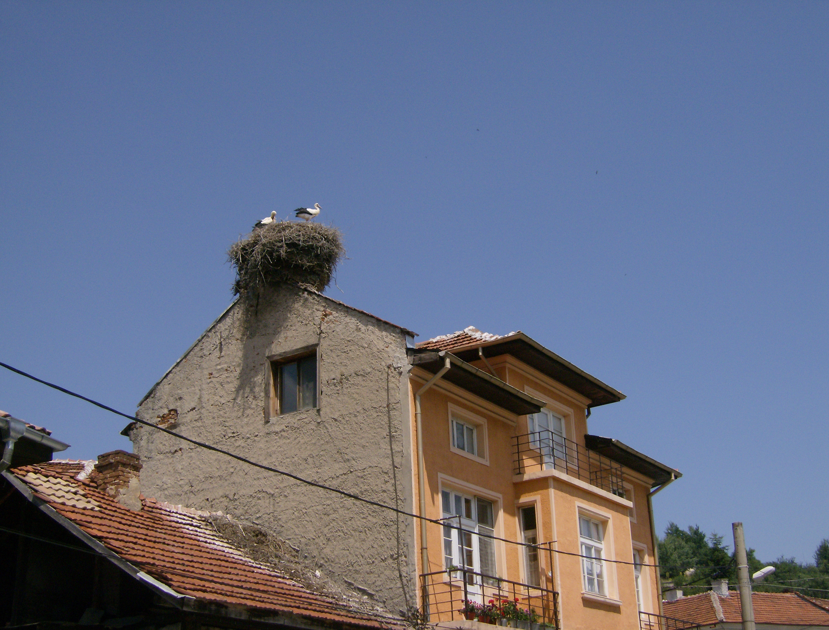 Ciconia ciconia nestq Batak, Bulgaria